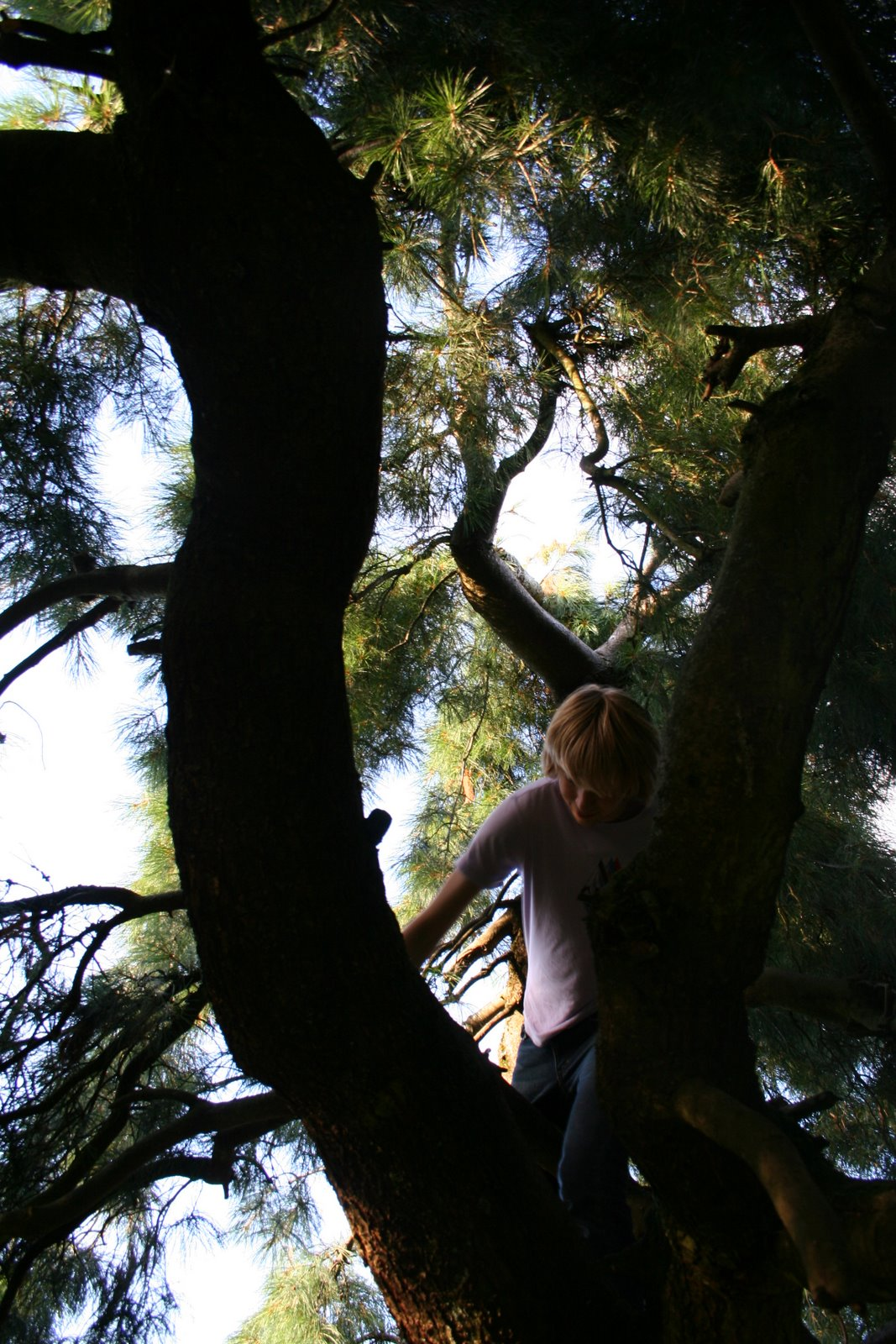 Person (user:merzperson0 climbing a tree.